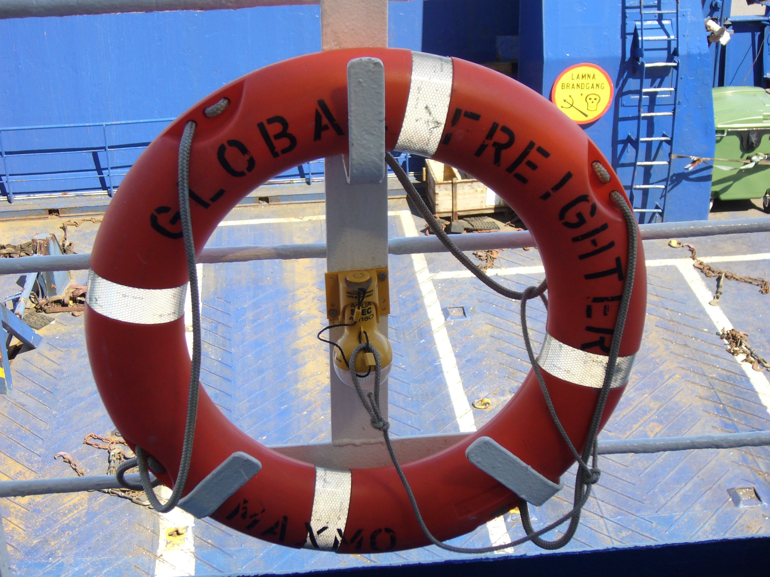 One of Finnish RoRo ship M/S Global Freighter's lifebelts.